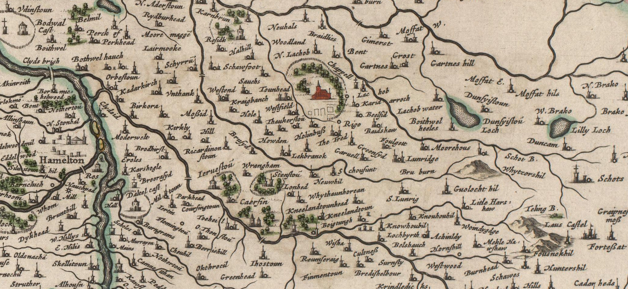 Blaeu's map based on Pont's of the area around Cleland.